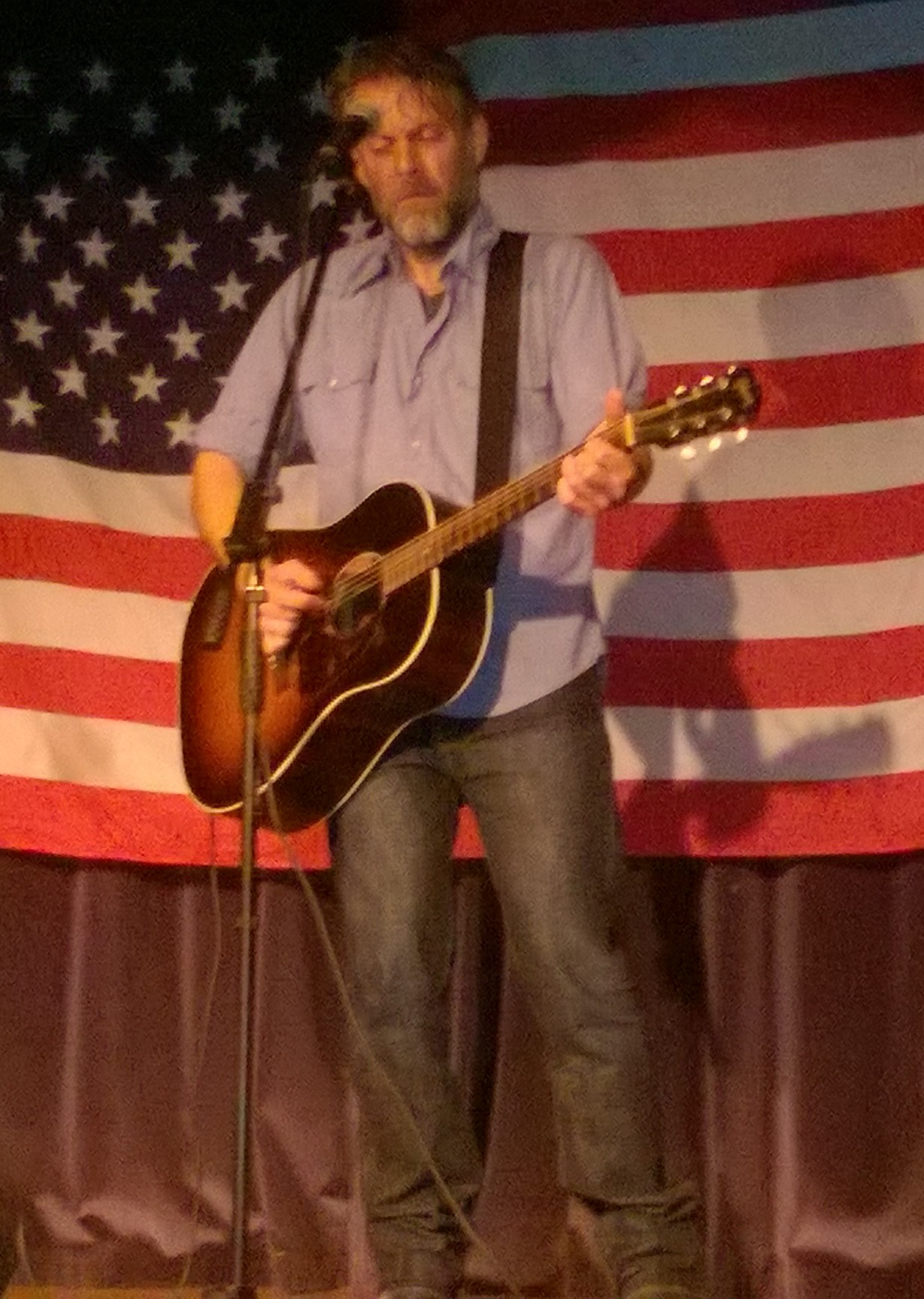 Singer-songwriter Rod Picott playing live tonight (30 January 2016). I took the photo myself.